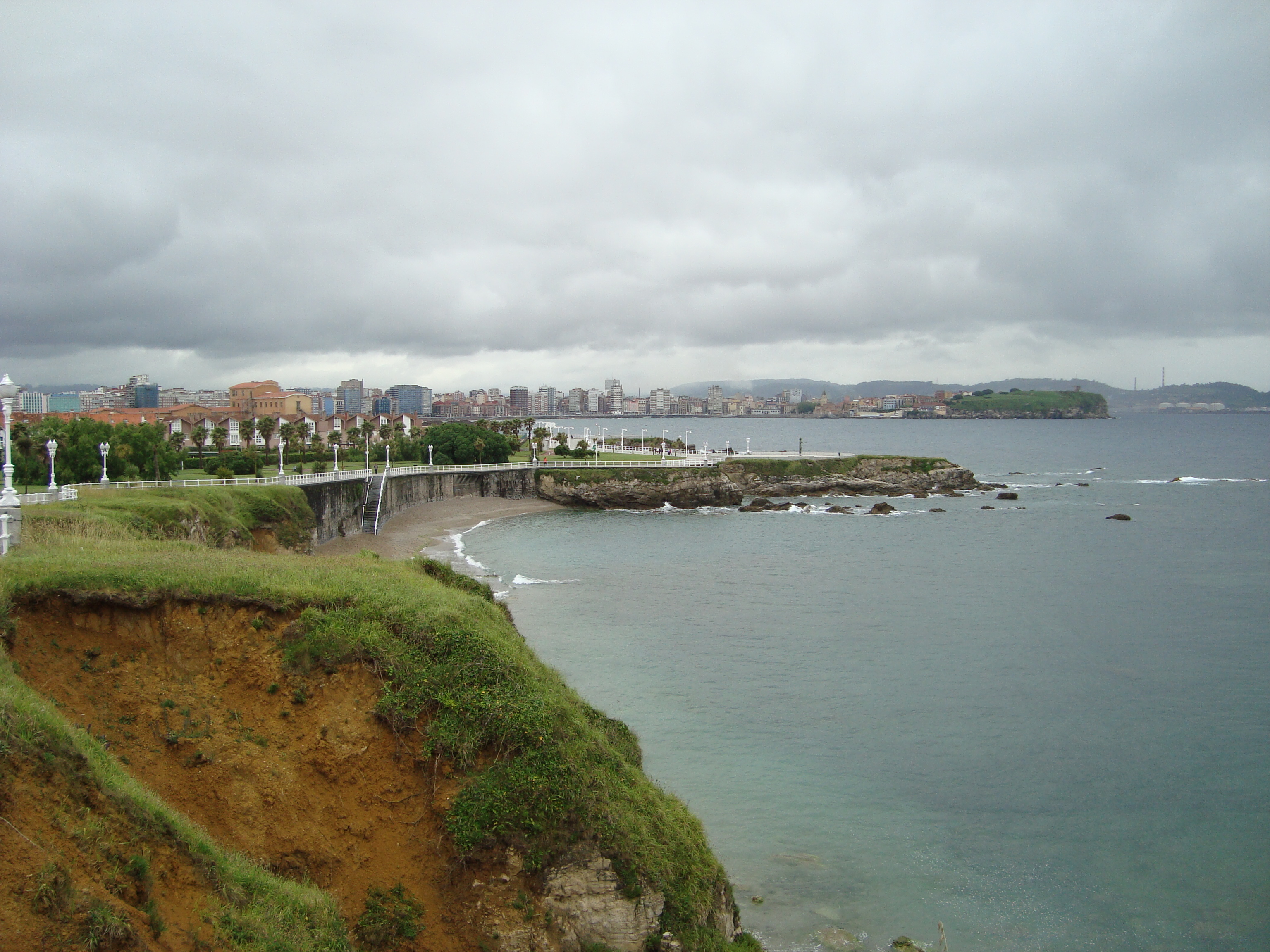 Gijón